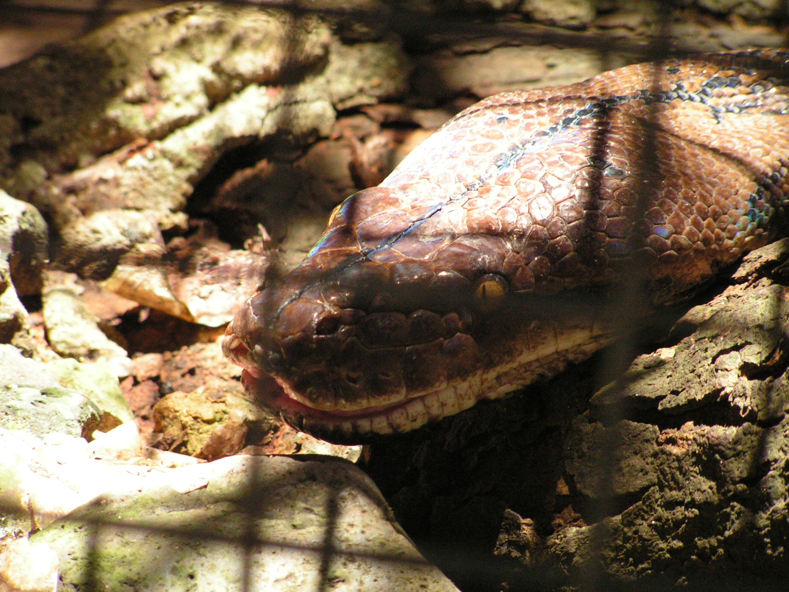 own work